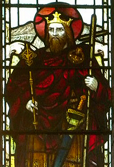 Stained glass window showing Brychan; saint and king of Wales; at Brecon church. Based on: File:Eluned a Brychan.jpg